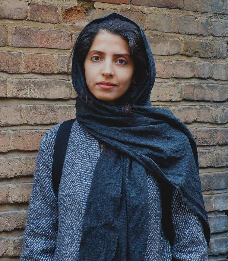 Portrait photograph of Azadeh Shahmiri taken by Mehdi Chakeri.